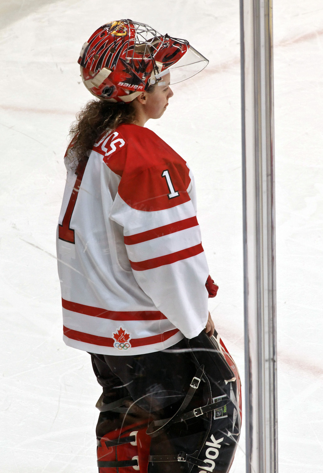 Canada goaltender Shannon Szabados warming up before the gold medal game against United States at the 2010 Winter Olympics